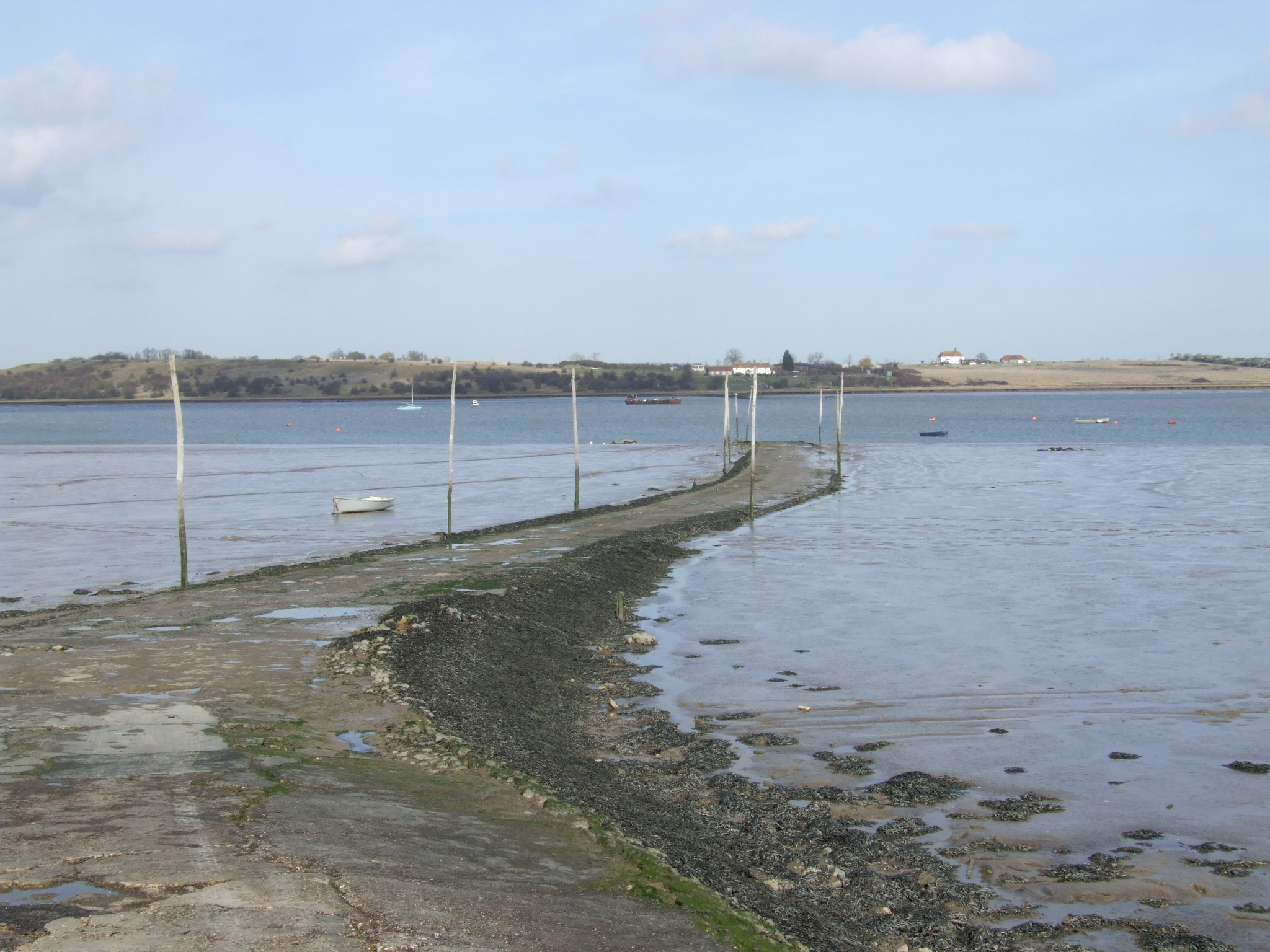 Oare, Kent is a village in Kent on the west bank of the Oare Creek, near Faversham.To the north of the village are the Oare Marshes and the The Swale. The causeway used by the Harty ferry.